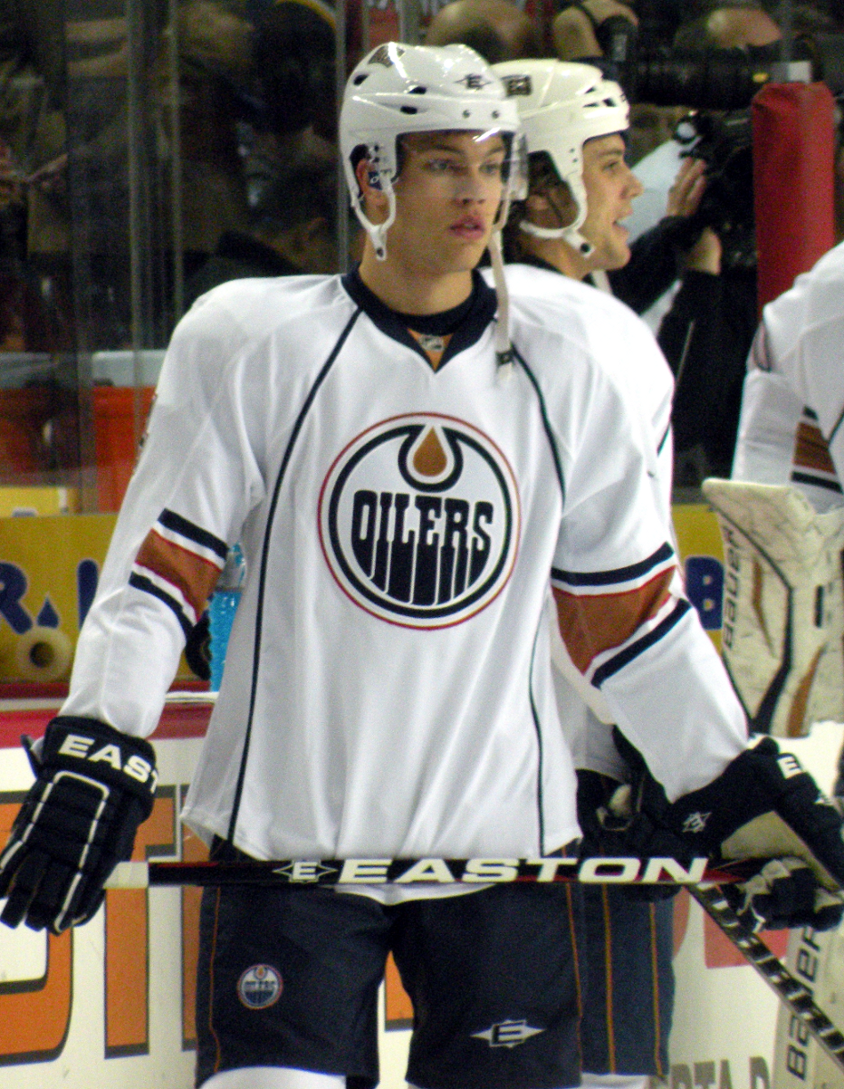 Edmonton Oilers forward Taylor Hall prior to a National Hockey League game against the Calgary Flames.